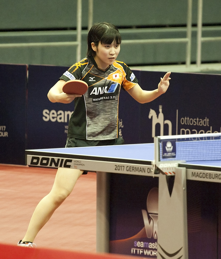 ITTF World Tour 2017 German Open, Magdeburg, Germany, 7 Nov 2017 - 12 Nov 2017, Miu Hirano